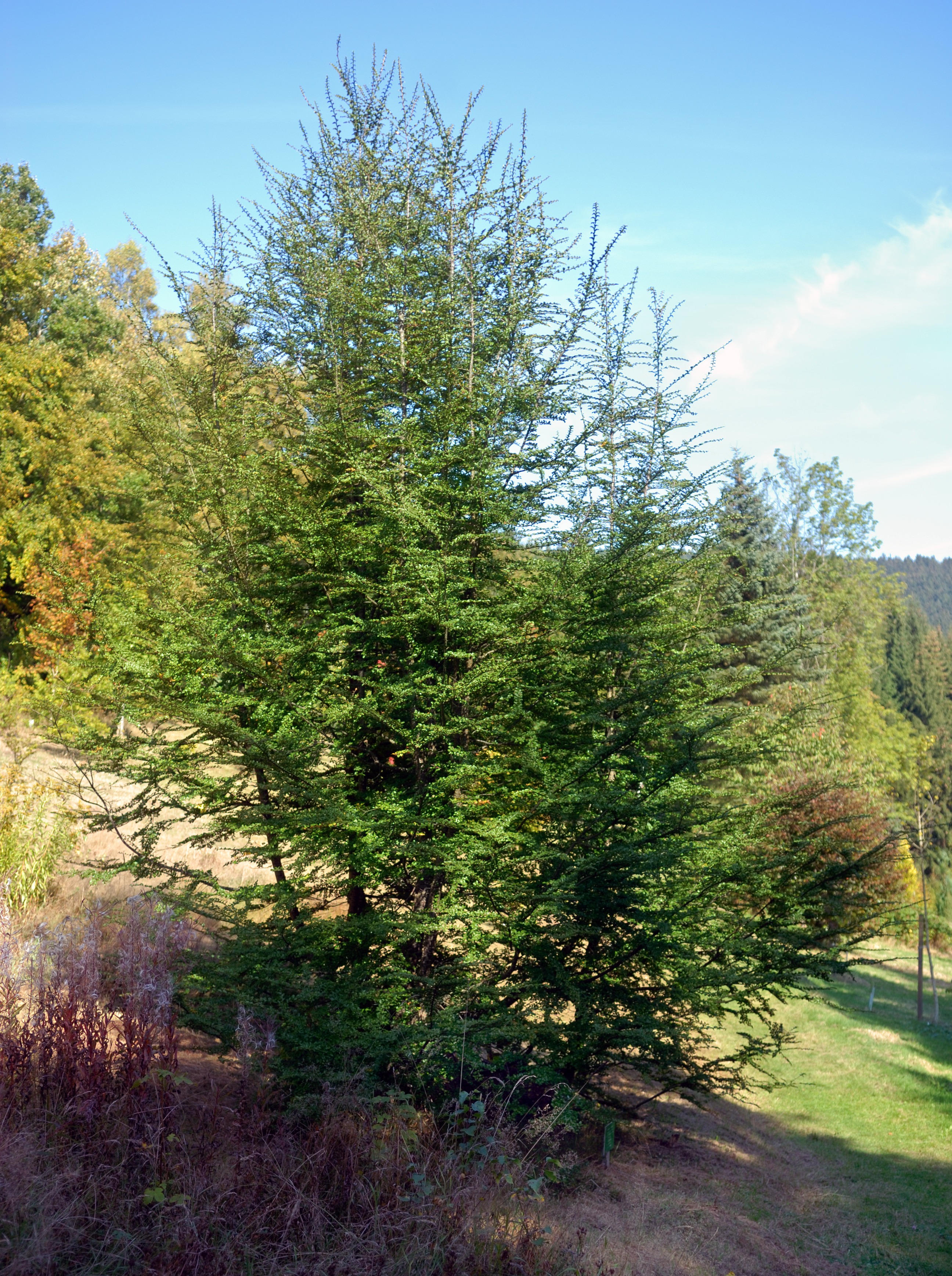 Antarctic Beech (Nothofagus antarctica)